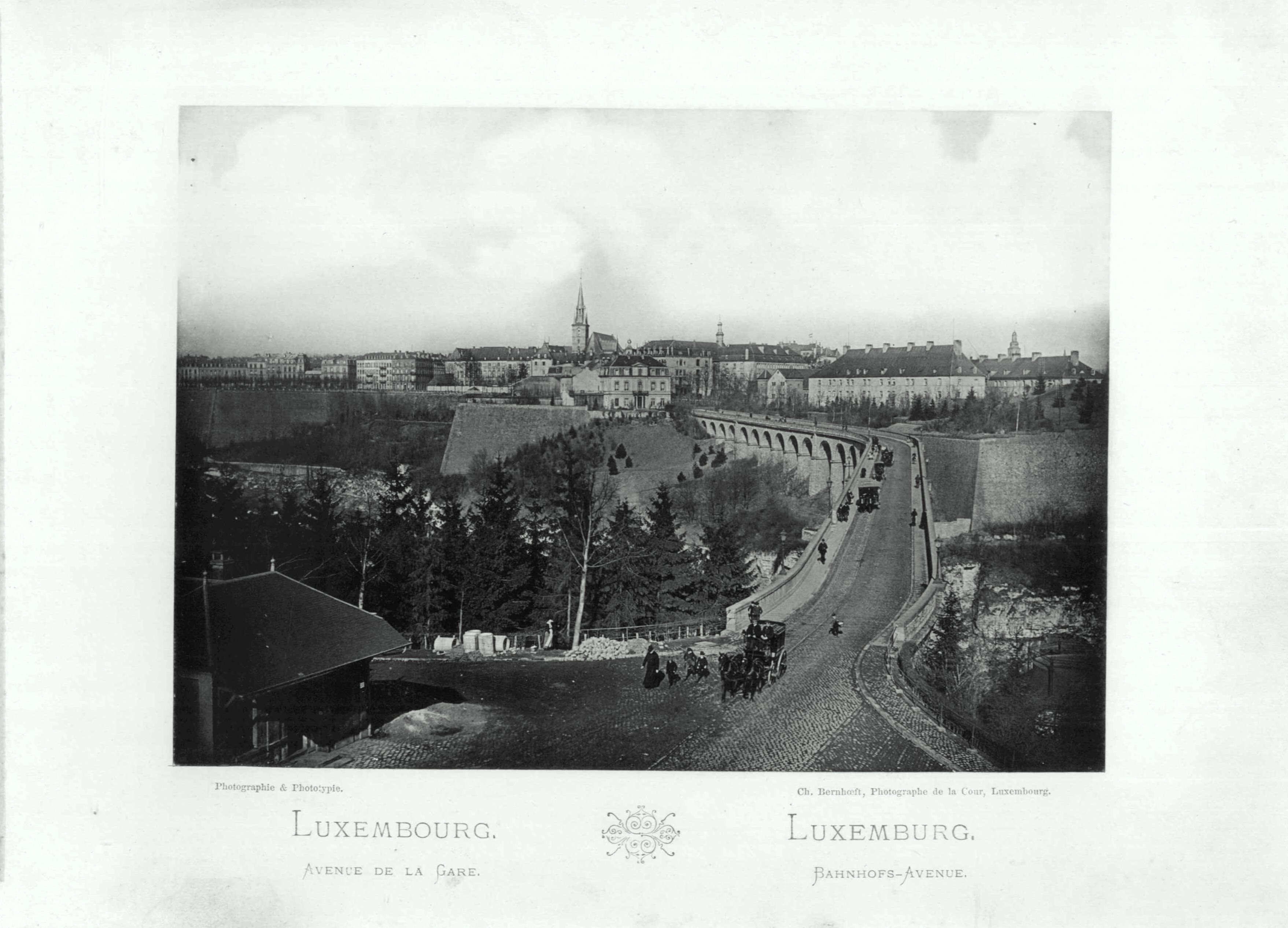 The Passarelle Bridge, Luxembourg City.